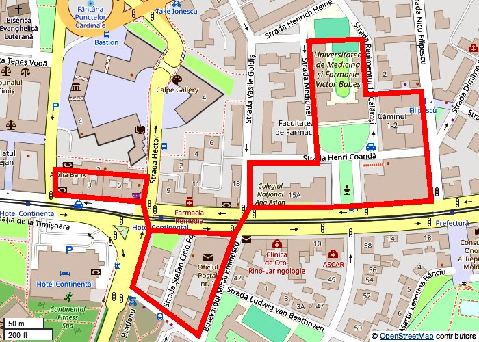 Map of heritage site "Ansamblul urban IX", Timișoara, Romania